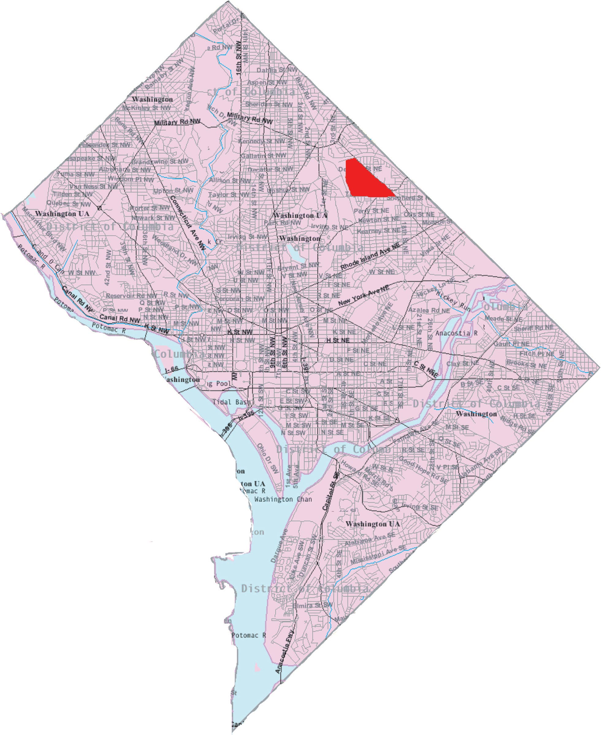 This image is a modified version of a self-generated reference map from the U.S. Census Bureau's American Factfinder at by Wikipedia user Msclguru.